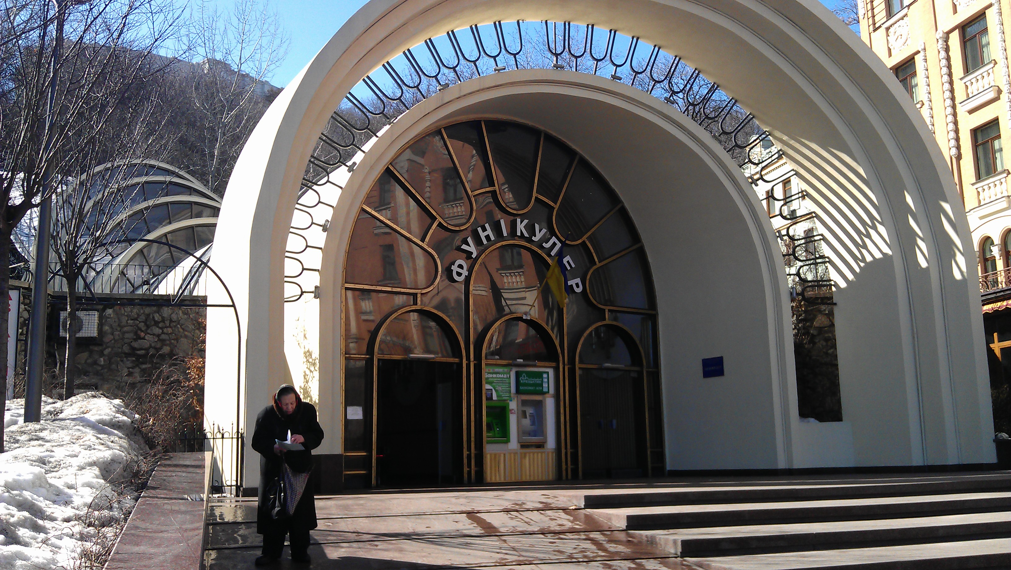 Kiev Funicular lower station